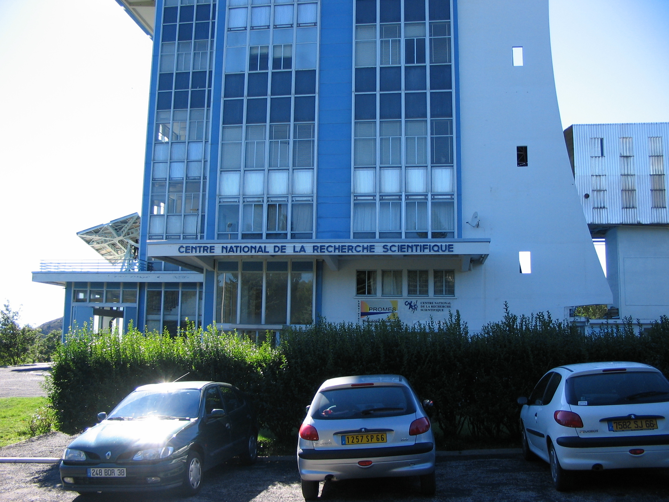 Centre du Four Solaire Félix Trombe, Odeillo, France.